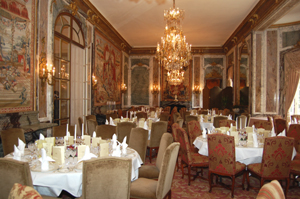 Inside Luton Hoo